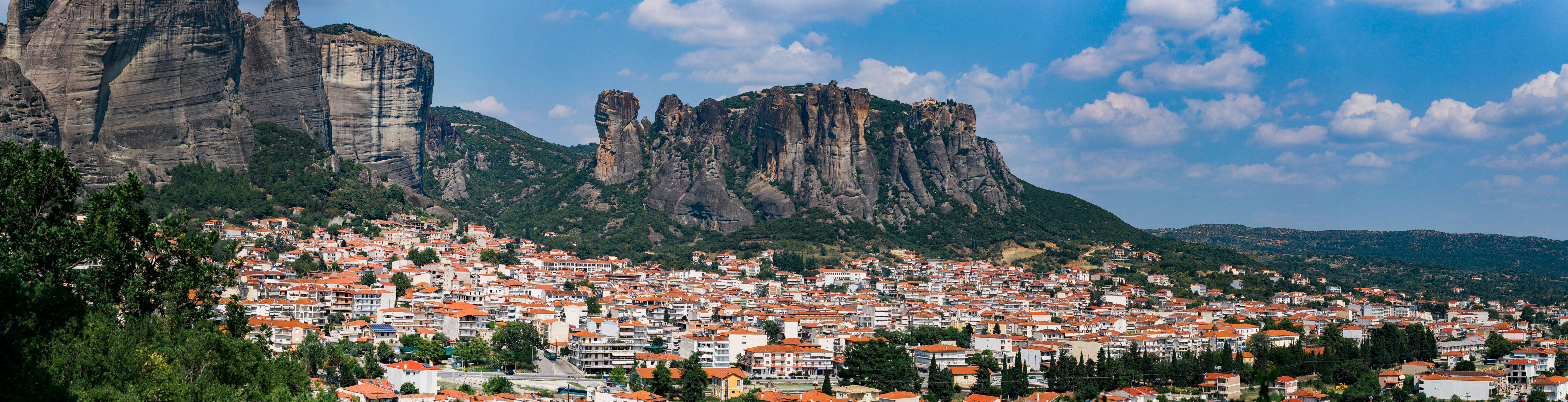 Panoramic photo of the city of Kalampaka.